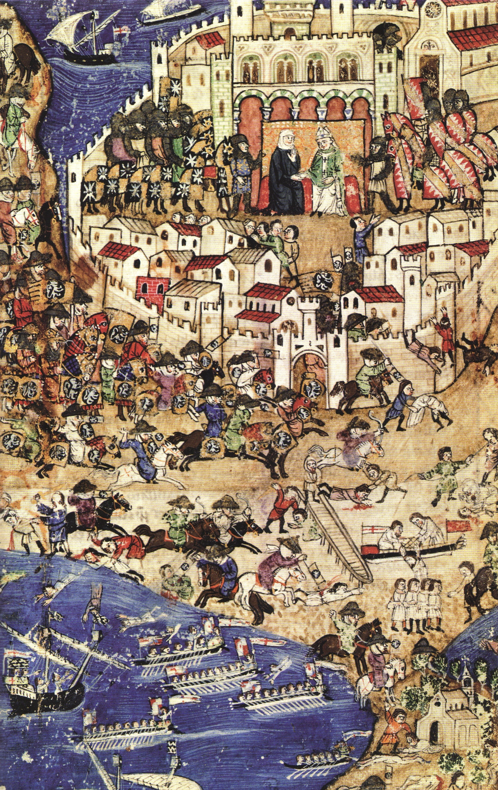 The fall of Tripoli to the Mamluks, April 1289. This was a battle towards the end of the Crusades, in what is modern-day Lebanon.